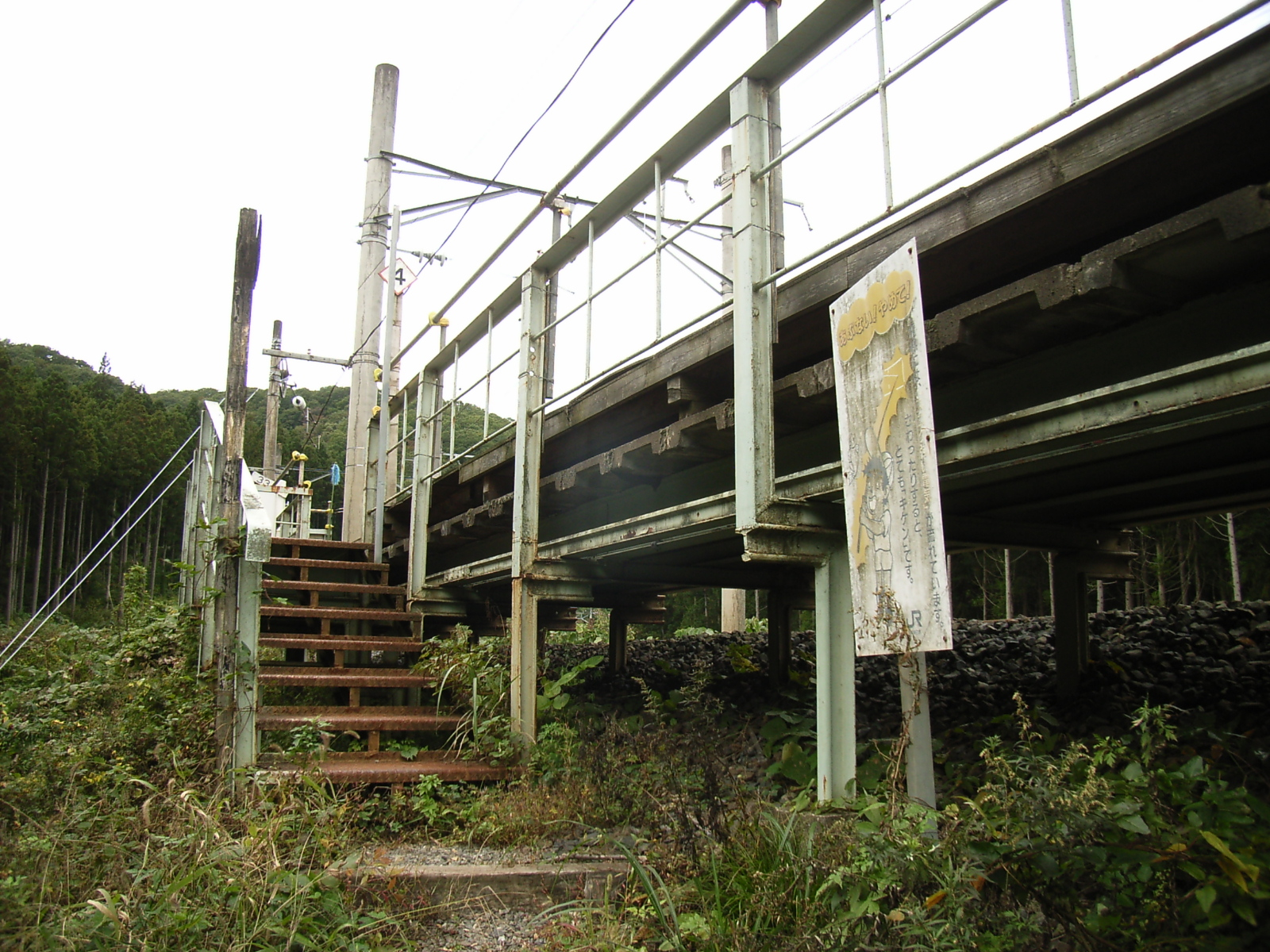 The entrance of the Yatsumori Station of the Senzan Line. Nikkawa, Aoba ward, Sendai, Miyagi prefecture, Japan. From the south of the Yatsumori Station, toward northwest.